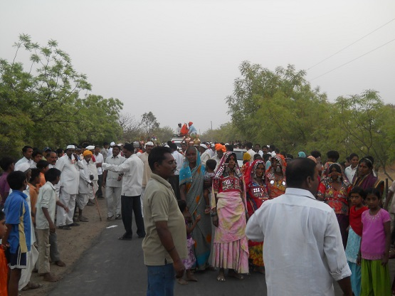 Gods rally of village people